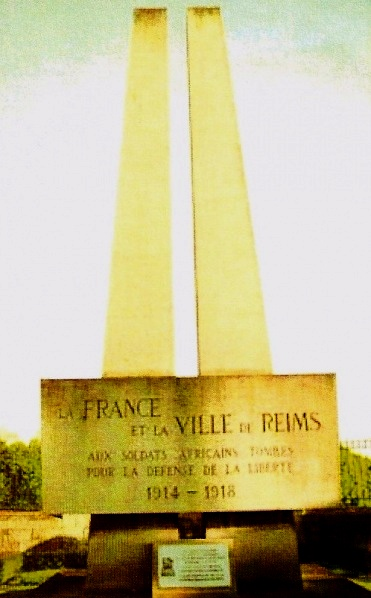 The monument dedicated to African soldiers who fought for France in Reims